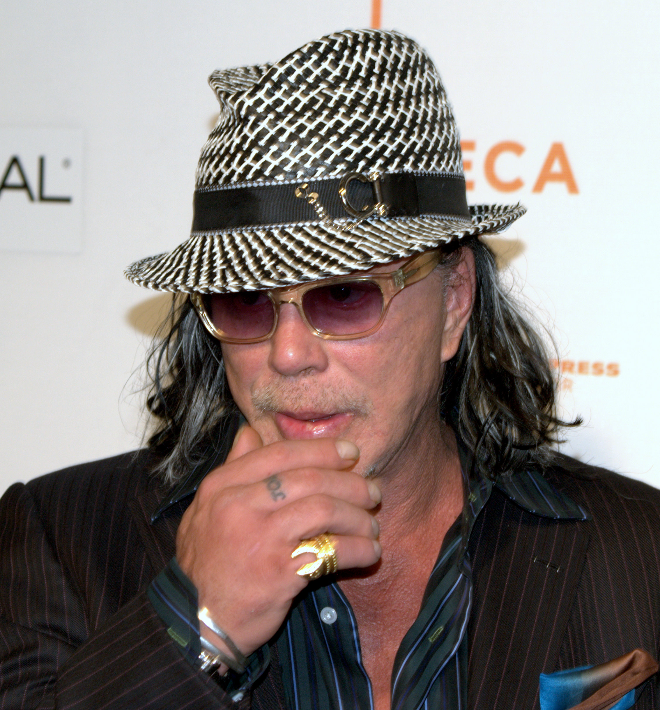 Mickey Rourke at the 2009 Tribeca Film Festival for the premiere of City Island. Photographers blog post about the event for this photo.